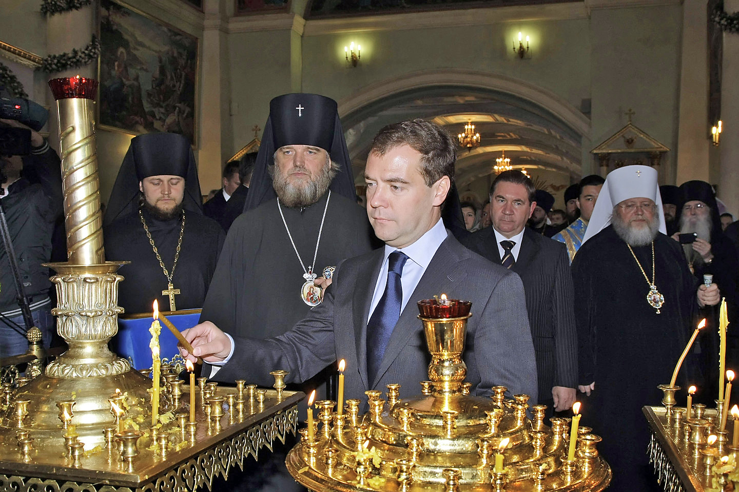 KURSK. Dmitry Medvedev visited Cathedral of the Virgin of the Sign. With Governor of Kursk Region Alexander Mikhailov.